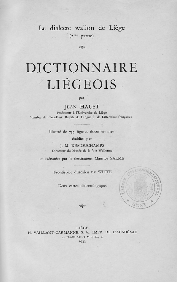 Liège, Belgium: Front page of the dictionary of the walloon language by Jean Haust